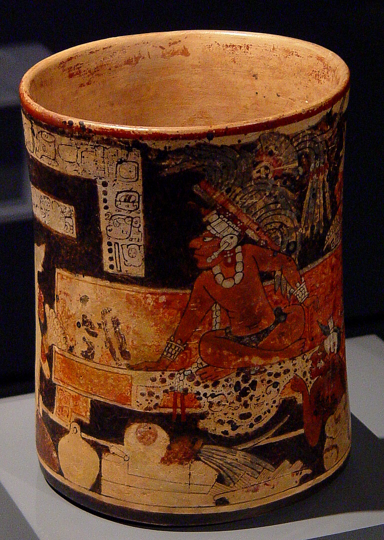 Lord of the jaguar pelt throne vase, AD 700-800, Maya. Pictured is a scene of the Maya royal court. Vase in the NGV collection.